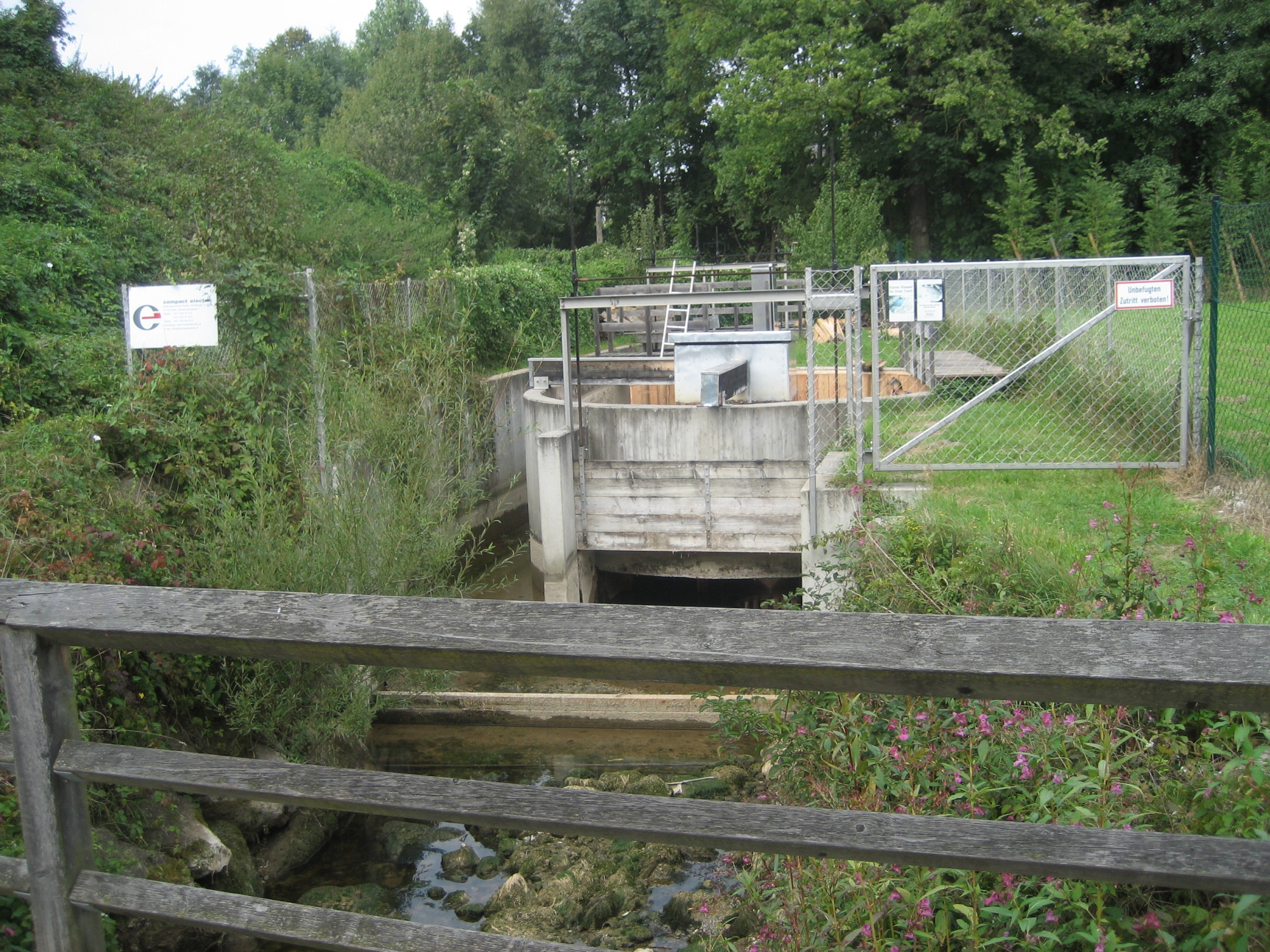 a Gravitation water vortex power plant near Ober-Grafendorf in Lower Austria